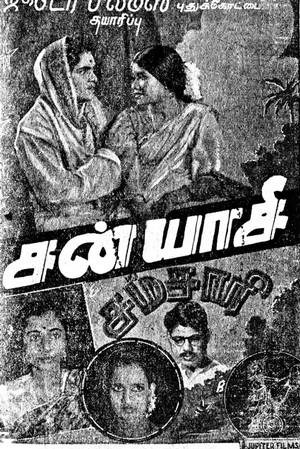 Advertising poster of 1942 Tamil-language film Sanyasi-Samsari